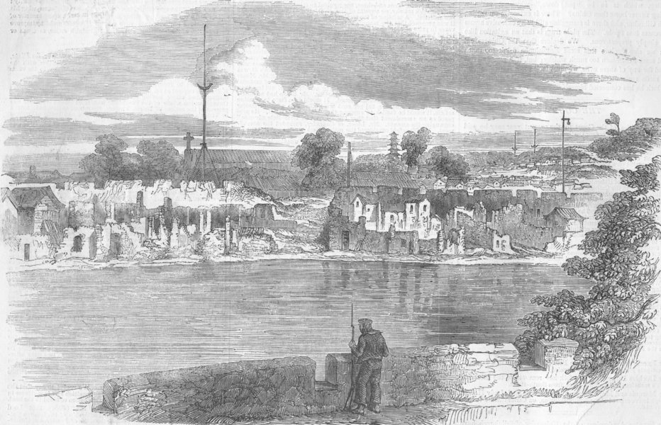 Part of the destroyed walls of Canton, from the Dutch Folly Fort. From a sketch by an officer engaged in the operations.